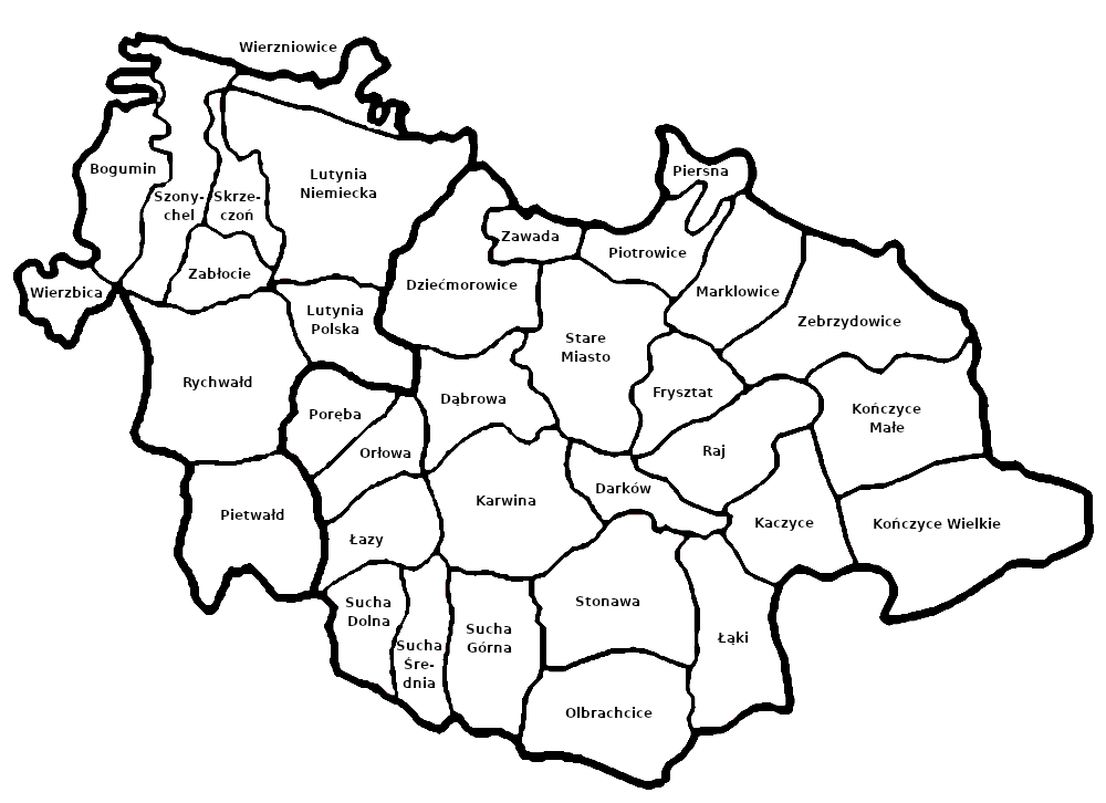 Freistdat District municipalities - Austrian Silesia